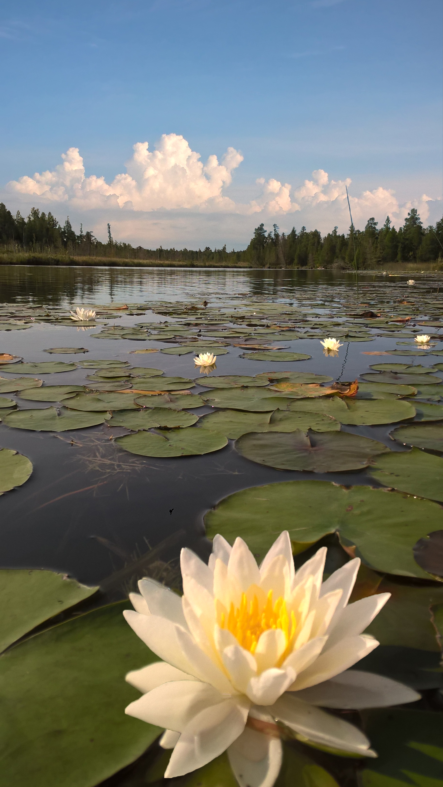 Grass River Michigan. Lilies line the river on a beautiful summer day.